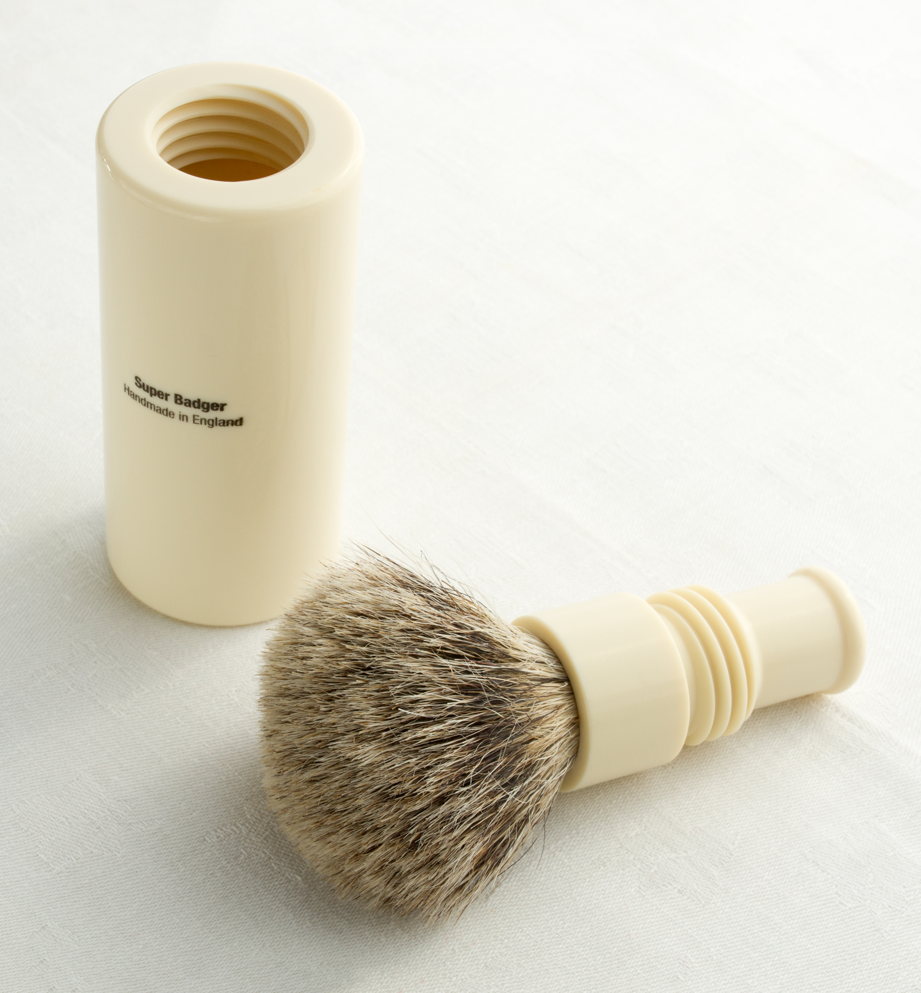 Travel Shaving Brush